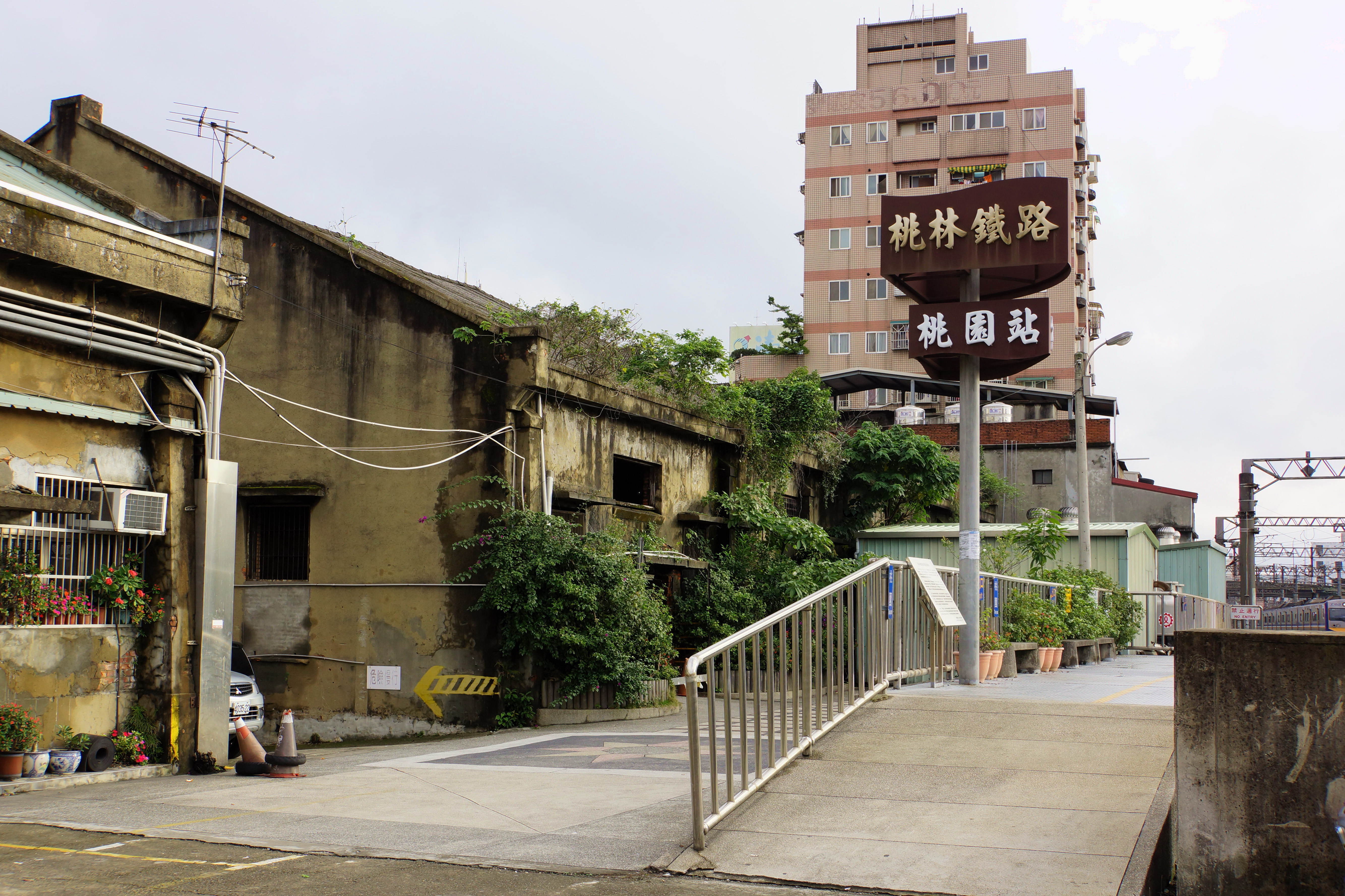 Terminal Station of Taolin Line 桃林線起站